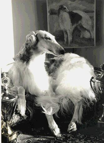 Bartina "Bertha" of kennel Stravi